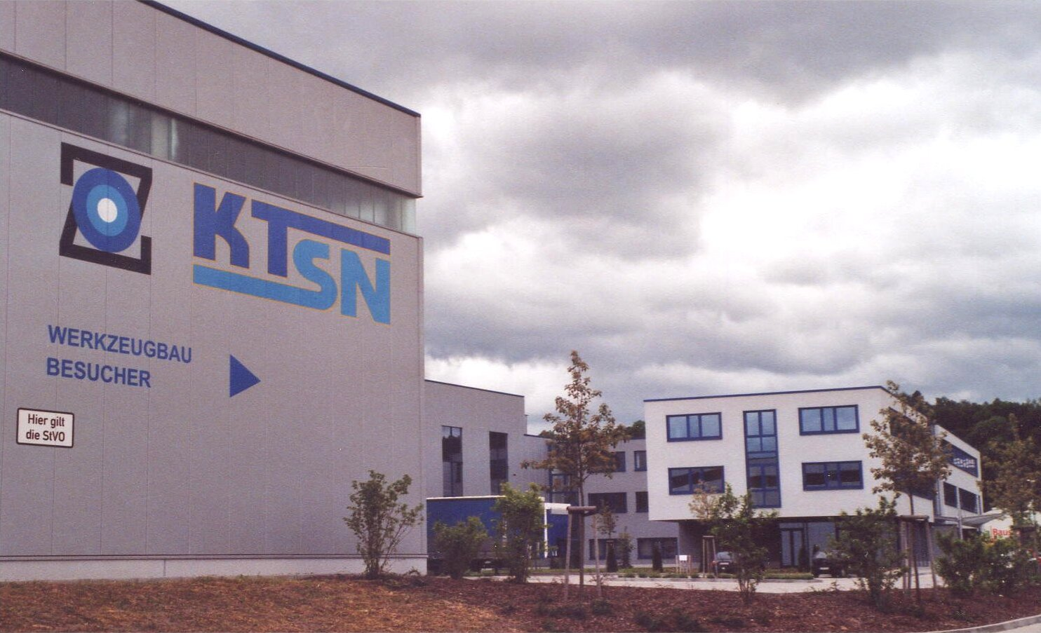 Pirna: Company ground of the Kunststofftechnik Sachsen GmbH & Co. KG (KTSN). The company produced in particular products for the car industry.